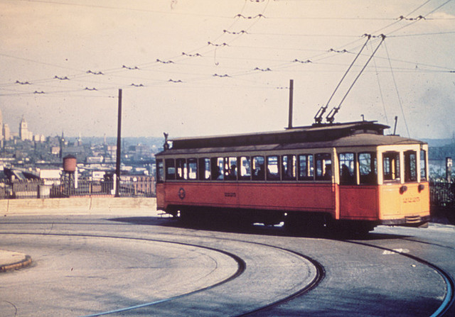 Cincinnati streetcar 2223 or 2225 (number not clearly readable) taking a sharp bend. Cincinnati's streetcar system was almost unique in North America in having double overhead trolley wire (two wires for each track) and cars fitted with two trolley poles instead of just one. The last streetcar line was abandoned in 1951. Construction of a new streetcar system began in 2012.